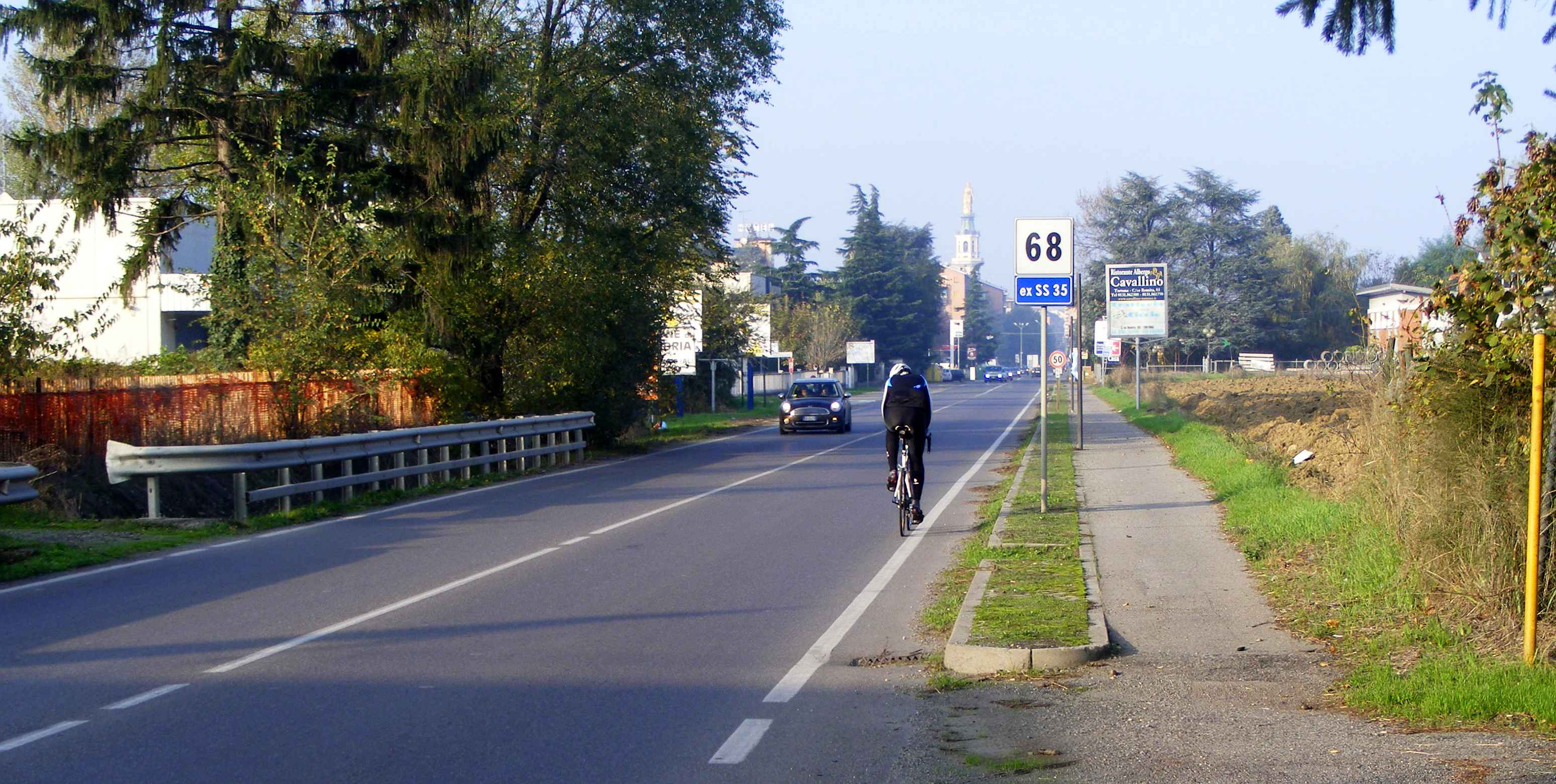 Former national road nr. 35 dei Giovi in Tortona (AL, Italy)